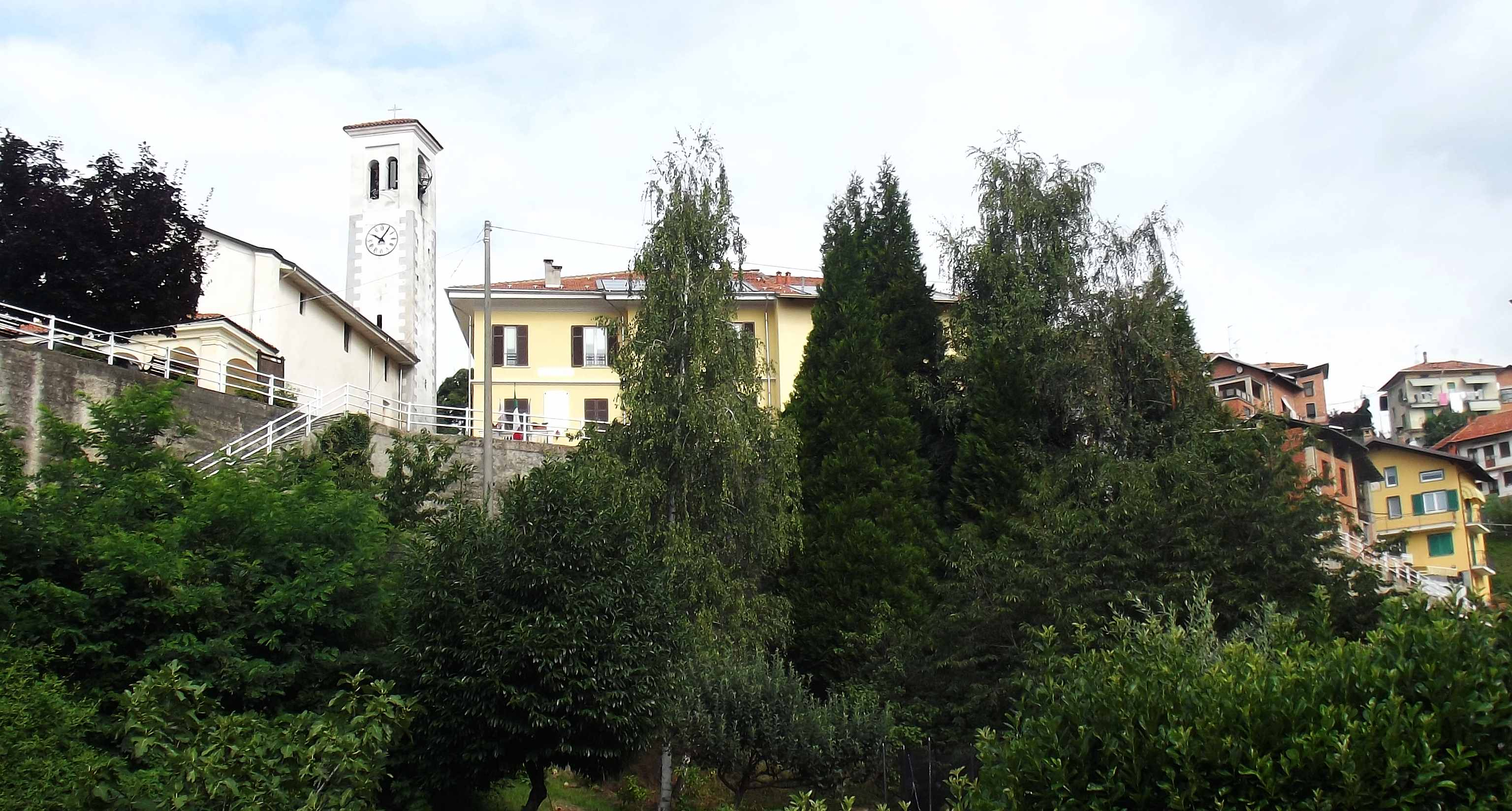 Soprana (BI, Italy): panorama